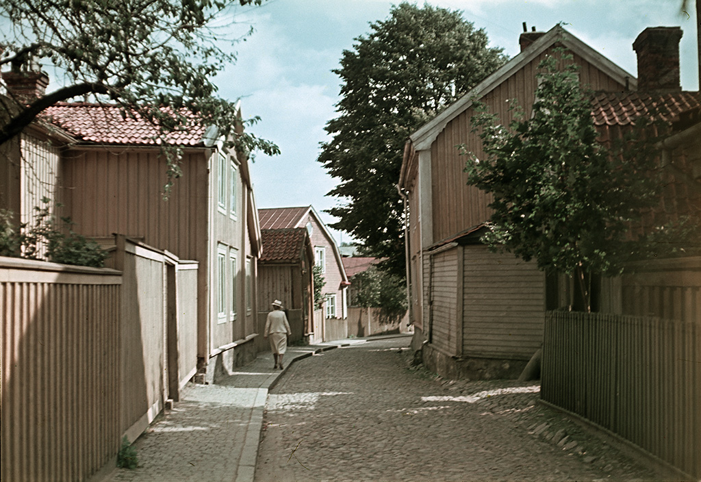 A woman walking in Västerlånggatan street. En kvinna promenerar på Västerlånggatan. Parish (socken): Kalmar Province (landskap): Småland Municipality (kommun): Kalmar County (län): Kalmar Photograph by: Fredrik Bruno Date: 1945 Format: Colour slide See a recent photo of the same view: Persistent URL: Read more about the photo database (in english)